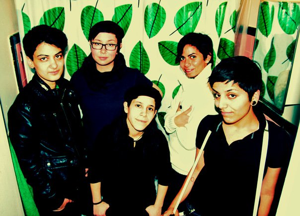 Band photograph of Secret Trial Five, political punk band